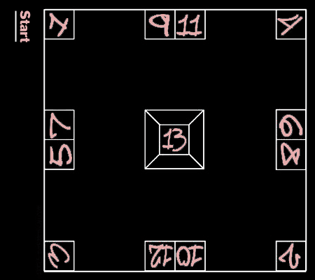 I created this file, I am also the producer of the site ; we have an item on CafePress that uses a similar image (different color scheme, fewer details) for an item to purchase which I also created. I hereby state that I created this version of this image myself specifically for Wikipedia and am releasing it to the public domain.